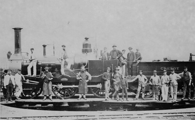 North Devon Railway broad gauge 2-4-0 locomotive Creedy photographed at Barnstaple shortly after the railway was absorbed by the London and South Western Railway.